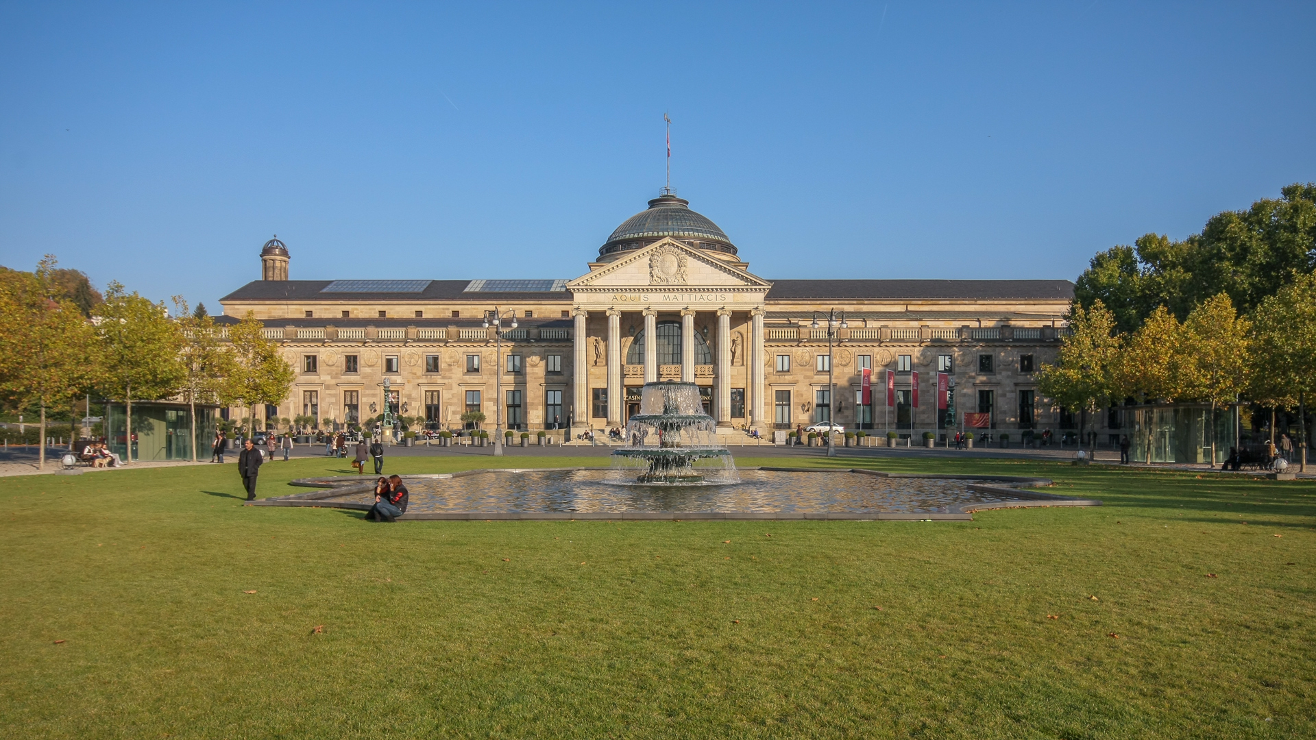 Kurhaus and Bowling Green in Wiesbaden, GermanyThis is a photograph of an architectural monument.